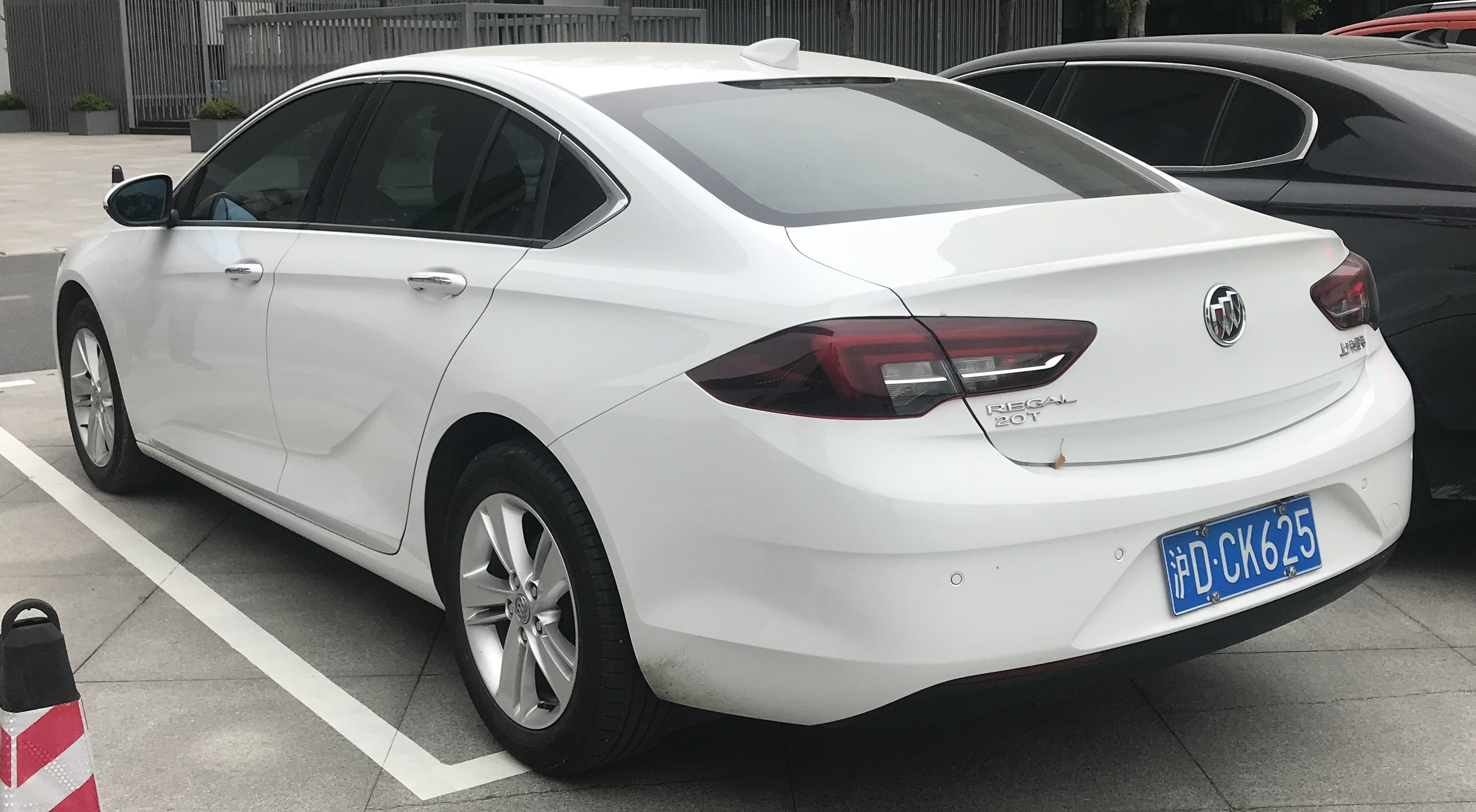 Buick Regal